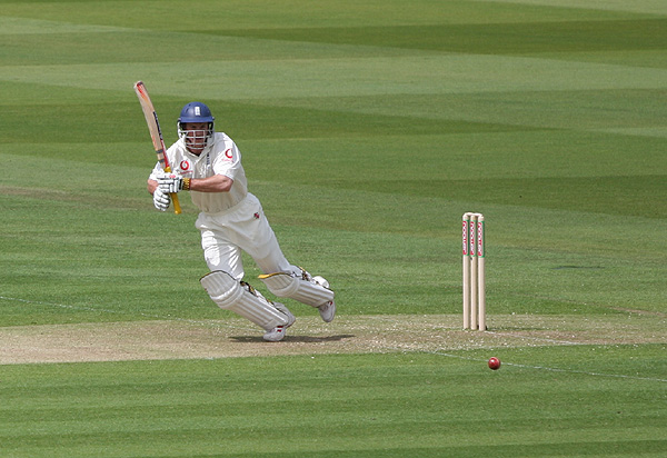 Andrew Strauss batting against Bangladesh at Lords